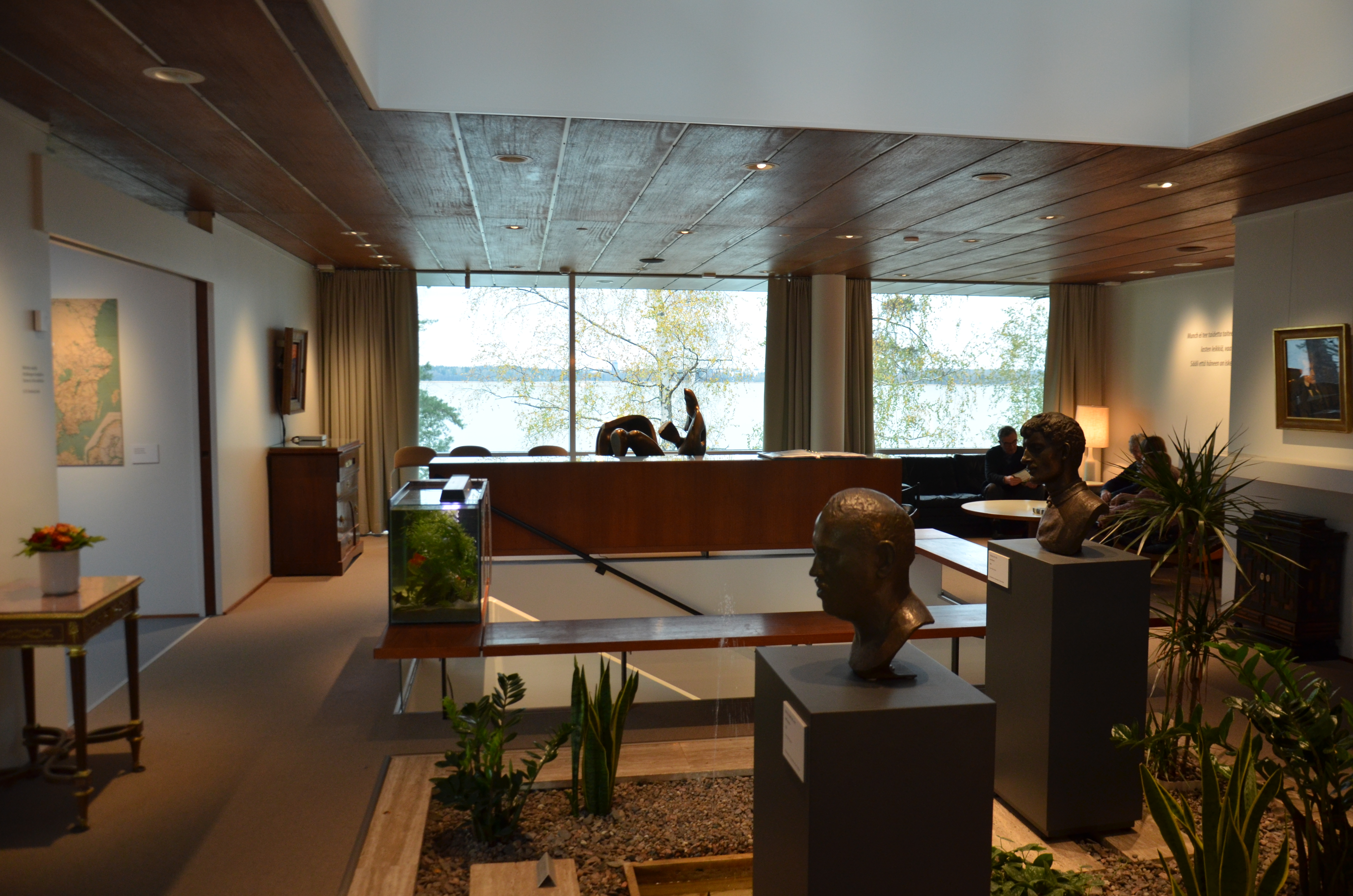 Didrichsen Art Museum, Helsinki